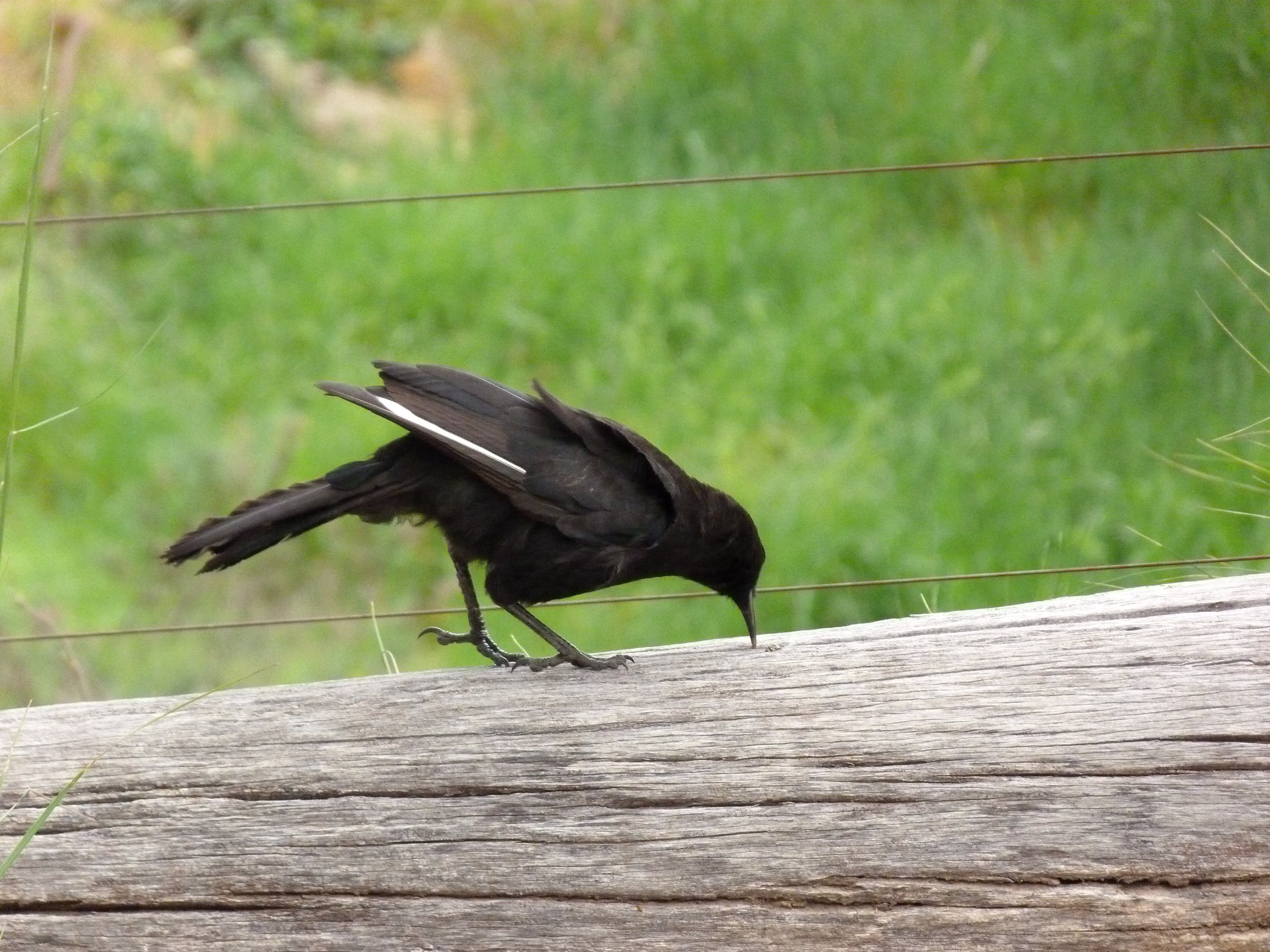 A White-winged Chough in Black Mountain, Canberra, Australia.